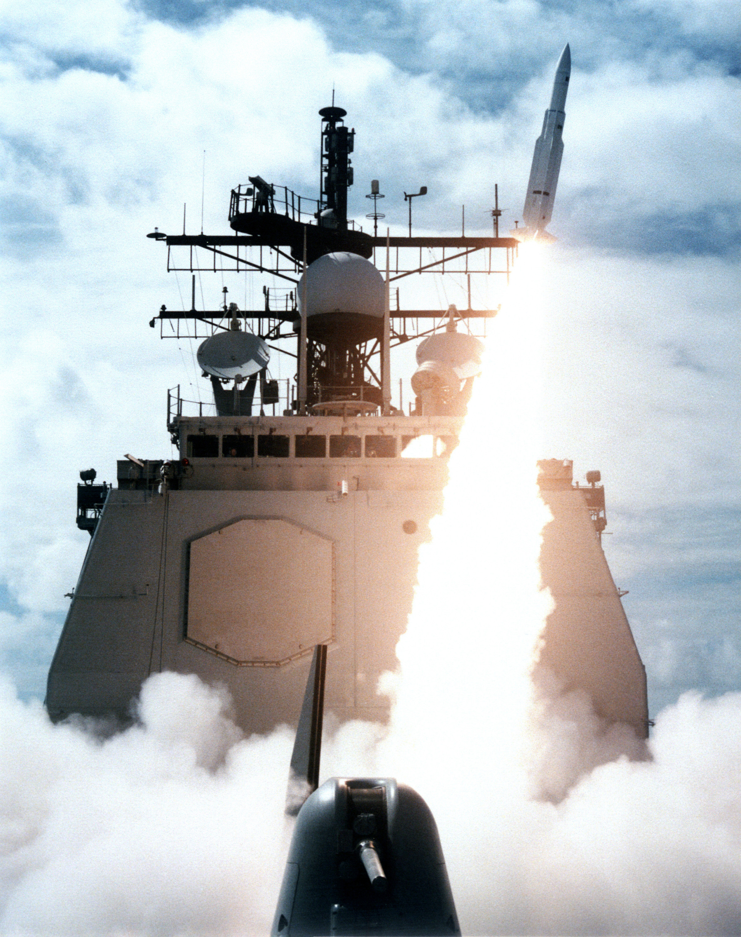 Copy negative of the US Navy (USN) Ticonderoga Class Cruiser USS VINCENNES (CG 49) launching a Standard Missile-2 (SM-2) Medium Range (MR) from its deck. Location: BARKING SANDS, KAUAI, HAWAII (HI) UNITED STATES OF AMERICA (USA)